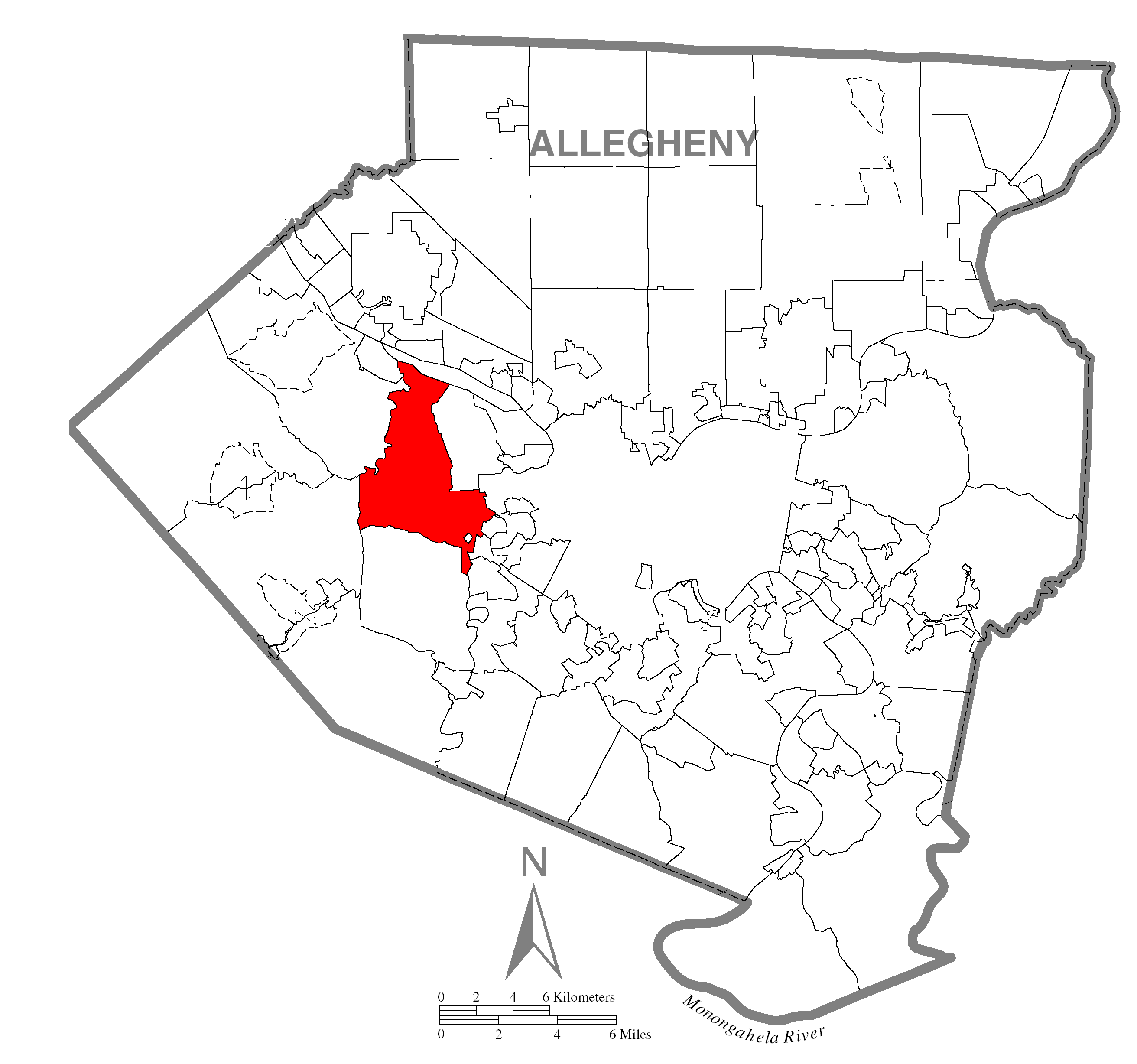 A map of Allegheny County showing Robinson Township, Pennsylvania (alternate) highlighted on the map.